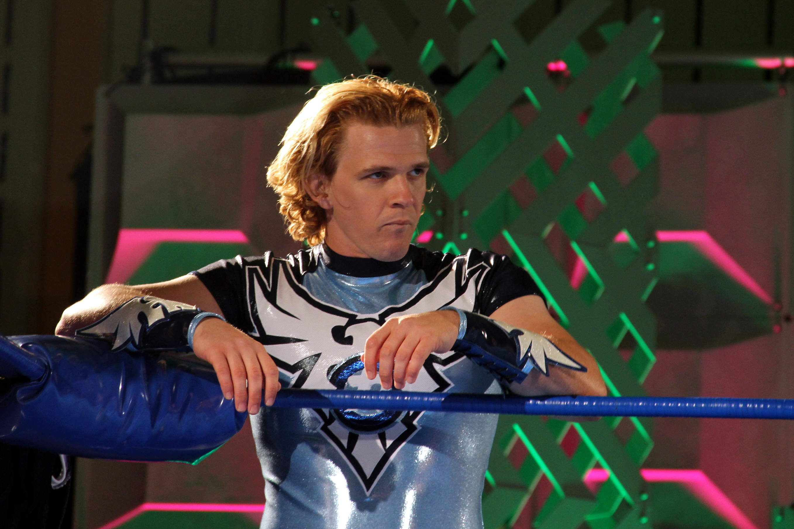 Icarus at Chikara's King of Trios Night 1 show in September 2014.